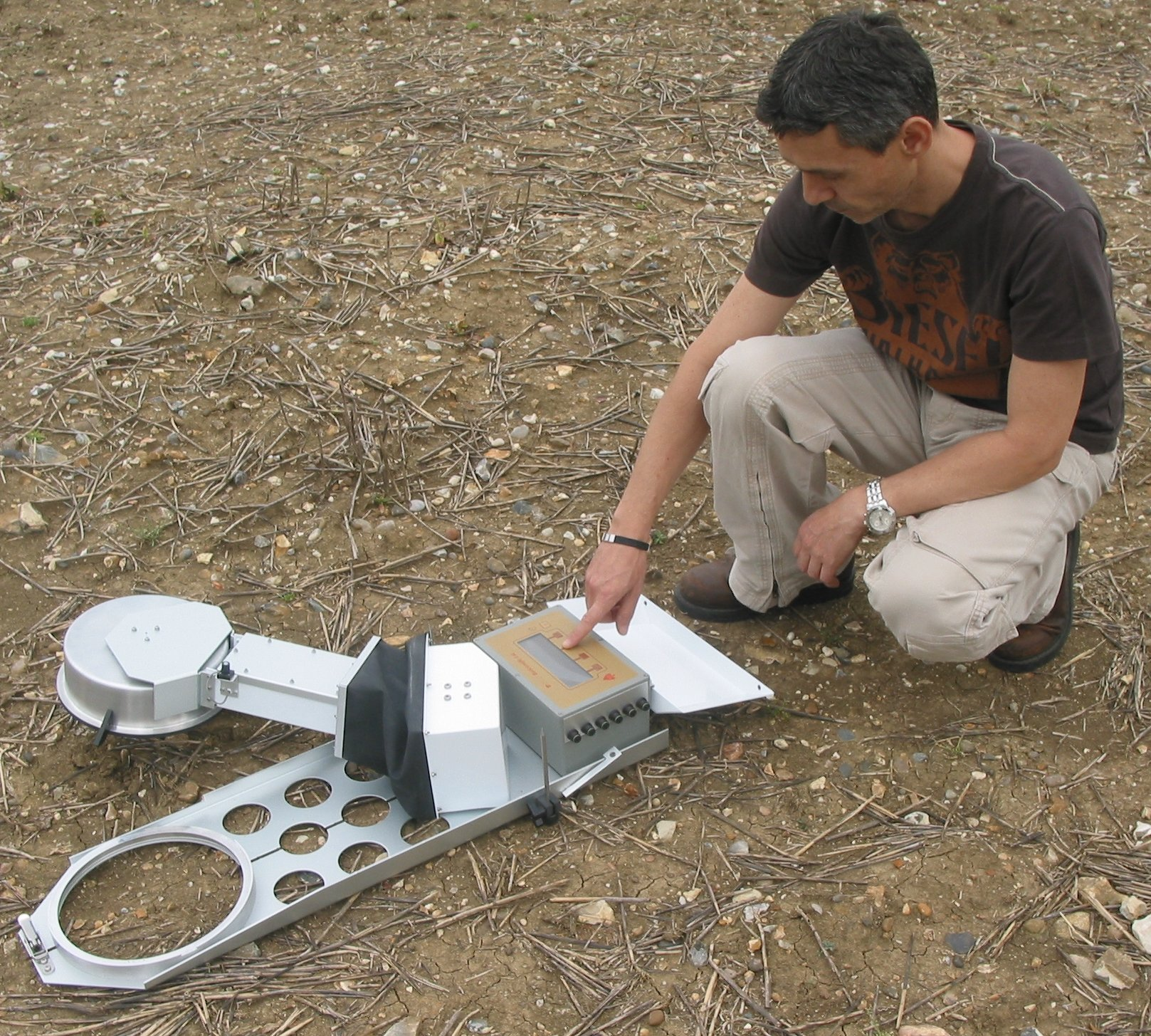 An automated soil respiration system, measuring CO2 flux in the field.